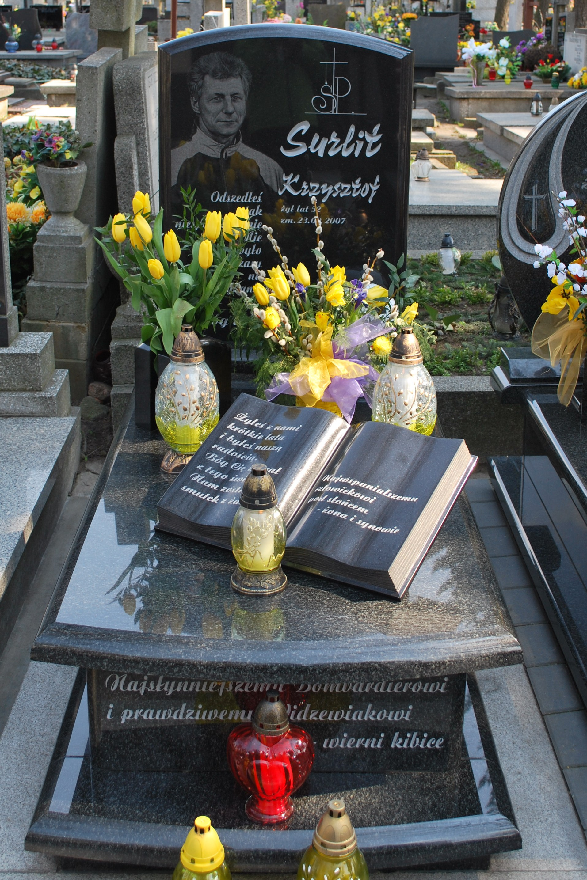 Krzysztof Surlit gravestone